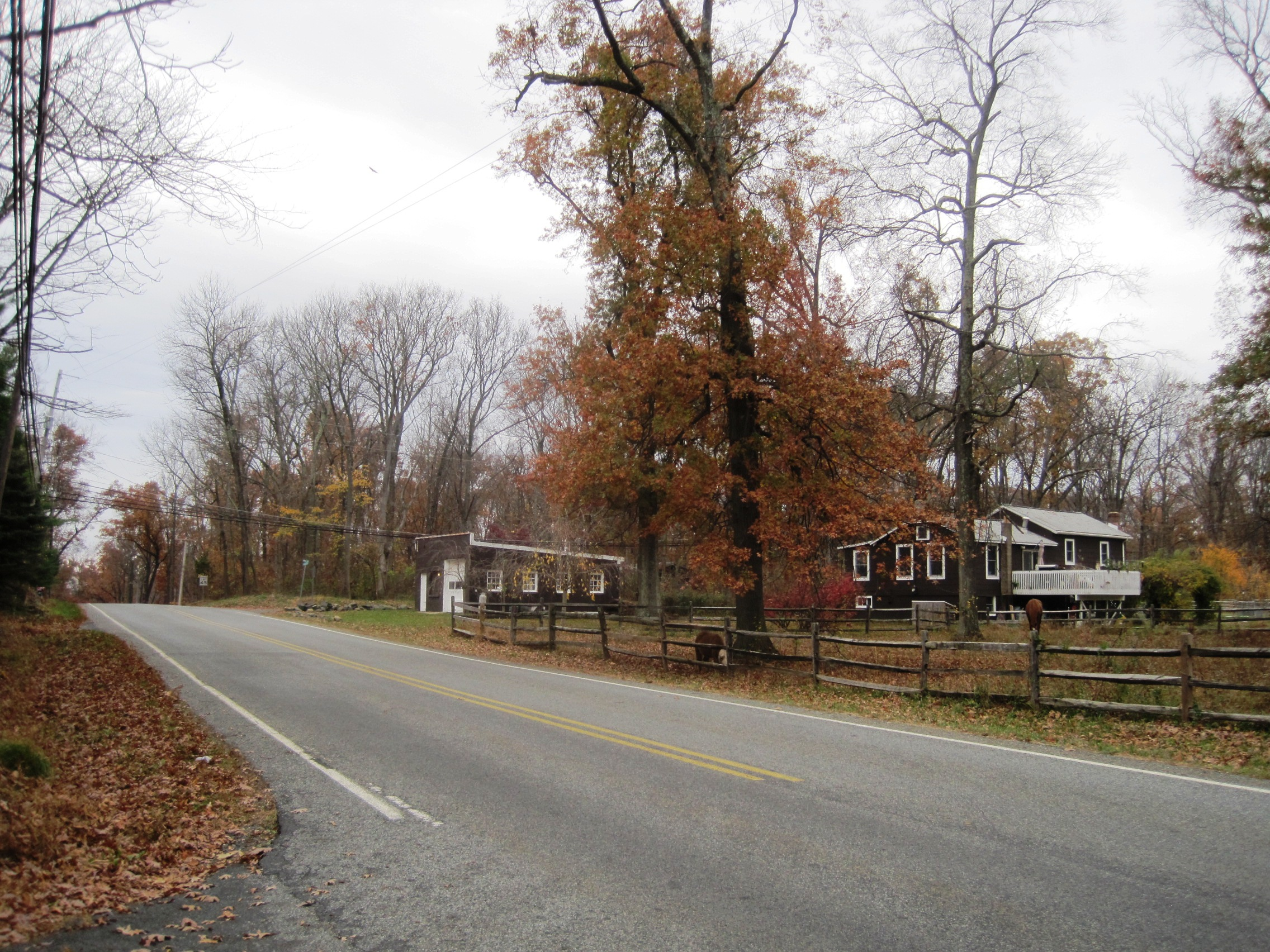 Photo of Rileyville, New Jersey, an unincorporated community within East Amwell Township. Photo taken looking north from the Rileyville Road (County Route 607) - Mountain Road intersection near Ridge Road.